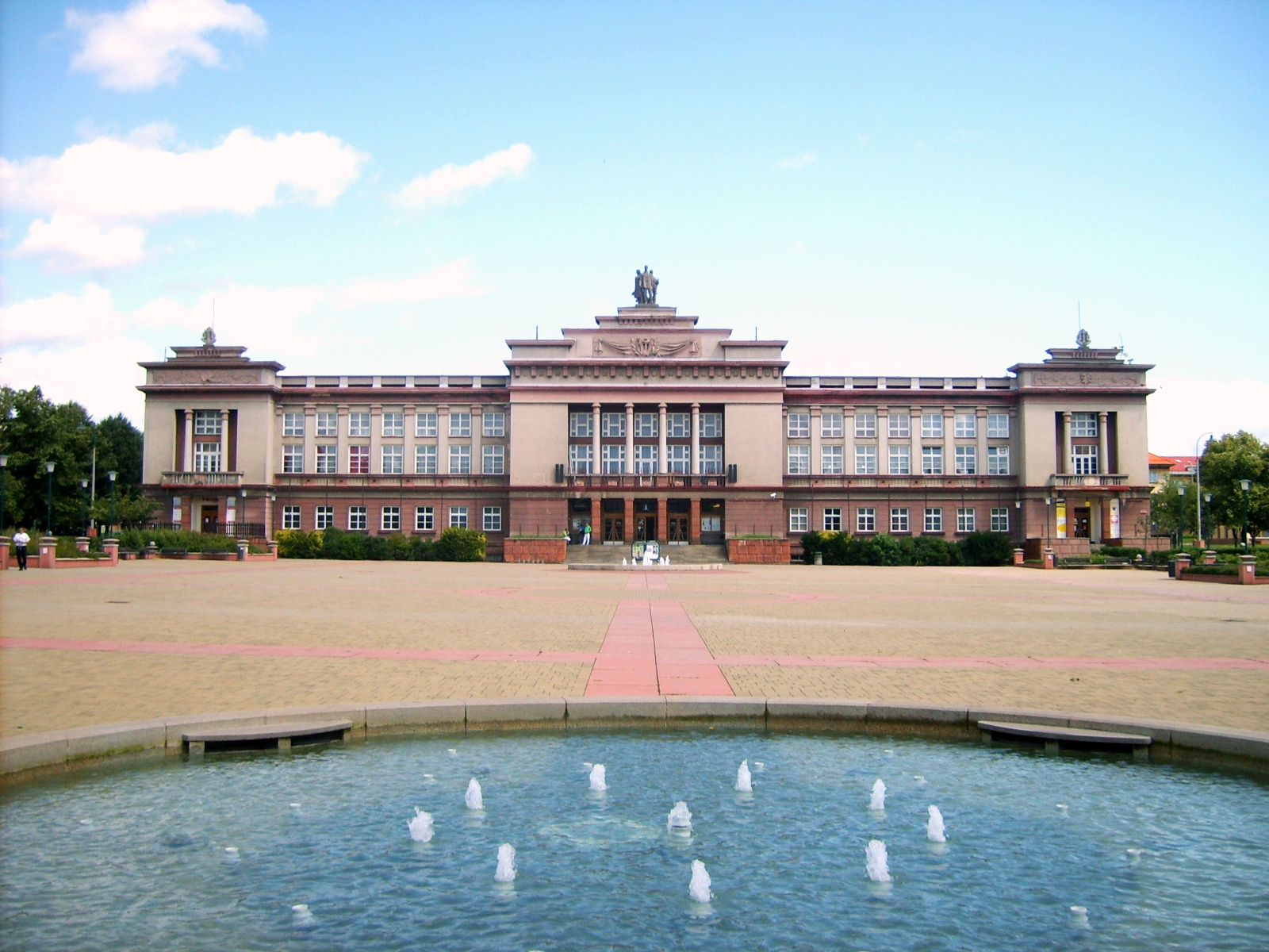 Culture house on "Piece square" in Ostrov nad Ohří, typical building from the period of Stalinist build-up in 1950s.